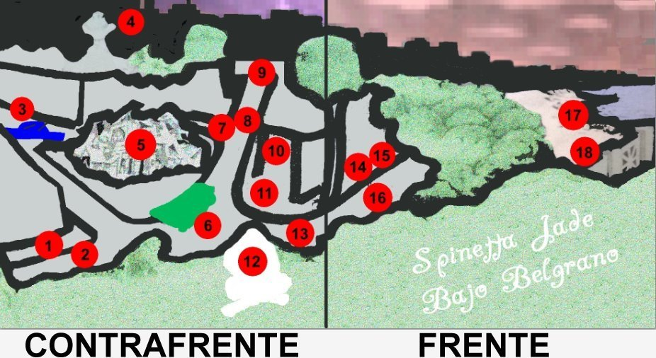 Explicative map about Bajo Belgrano (Spinetta Jade) Album Cover